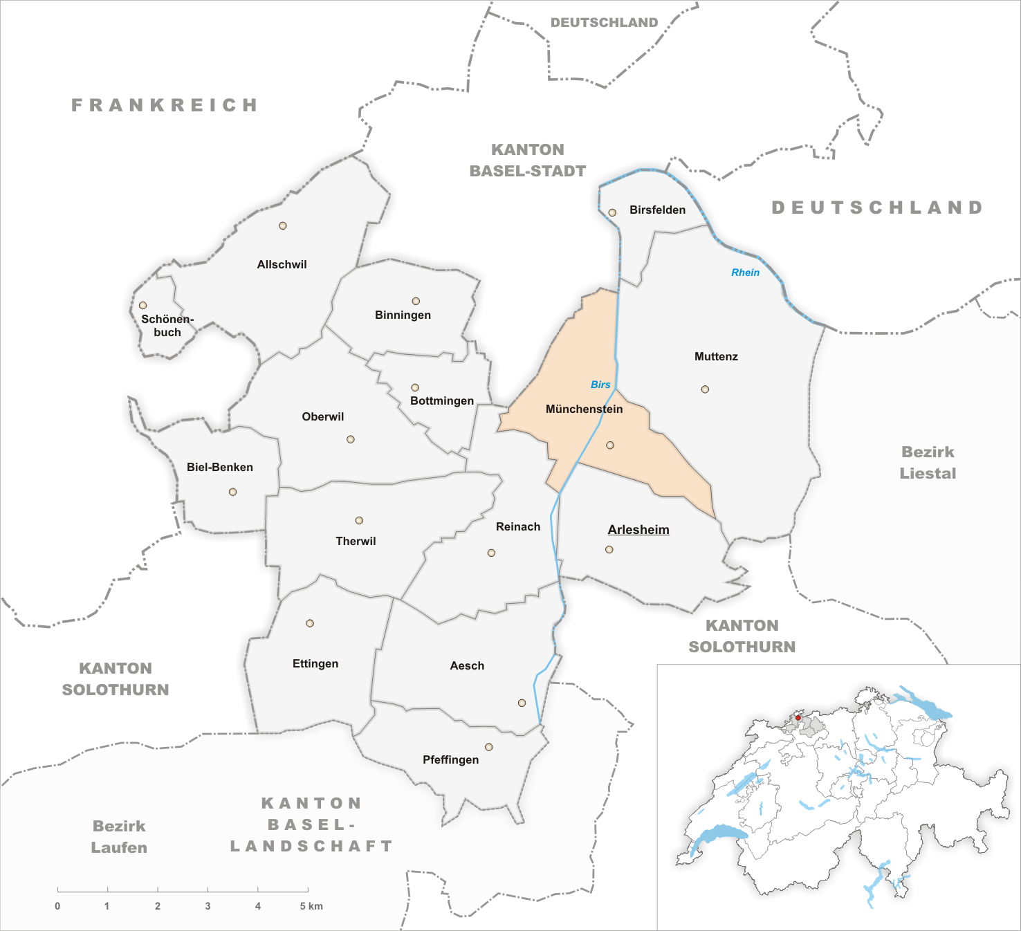 Municipality Münchenstein